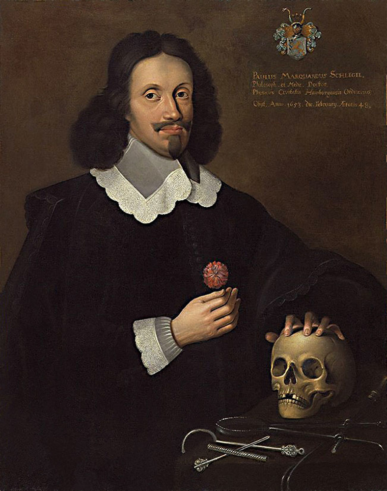 Paul Marquard Schlegel (1605-1653) German physician and botanist